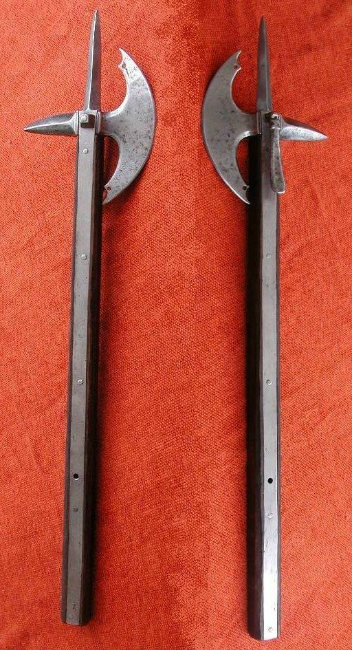 Horseman's axe, circa 1475. This is an example of a battle axe that was tailored for the use of a mounted knight. Note the hole on the haft for the accommodation of a leather strap to be passed over the wrist, the belt-hook for ease of carrying, and the langets. This example dates from the last quarter of the 15th century and is 69 cm (27 inches) long. The wooden haft is modern. The blade's punched decoration suggests German make. Variations of this basic design include the fitting of a hammer face instead of a pointed pick behind the blade.[1]